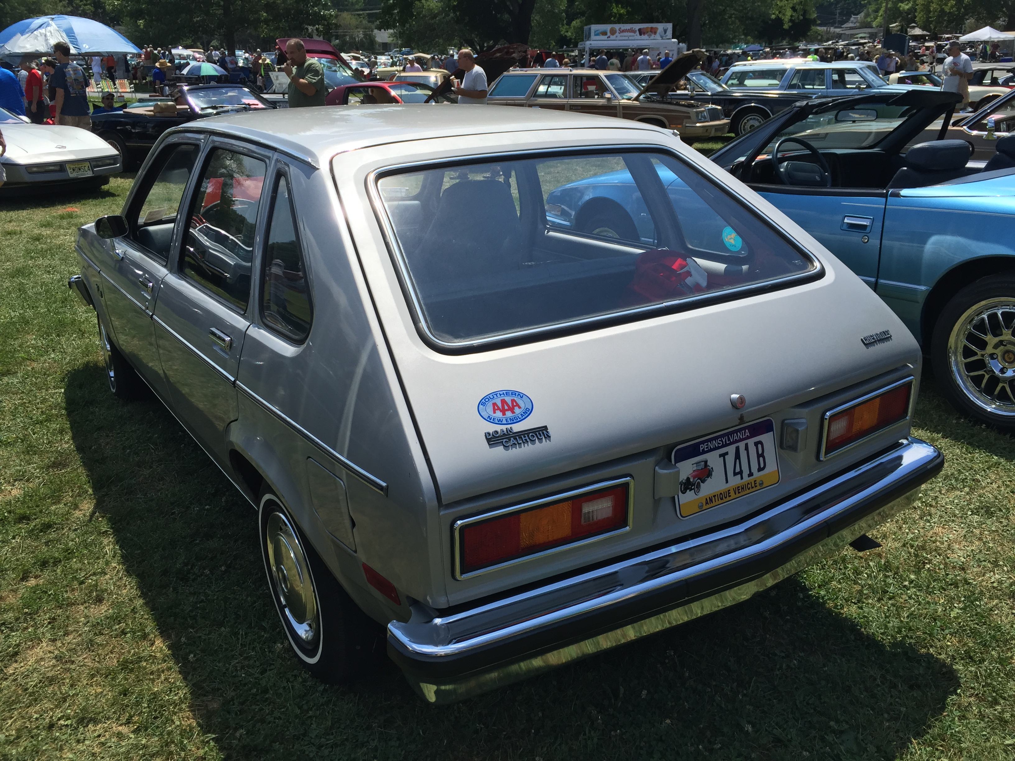 1978 Chevrolet Chevette four-door hatchback, an economy subcompact manufactured by General Motors. It is in original factory condition, without modifications or customization, and has not been butchered in any way. Picture taken at the 52nd Annual "Das Awkscht Fescht" antique car show in Macungie, Pennsylvania.